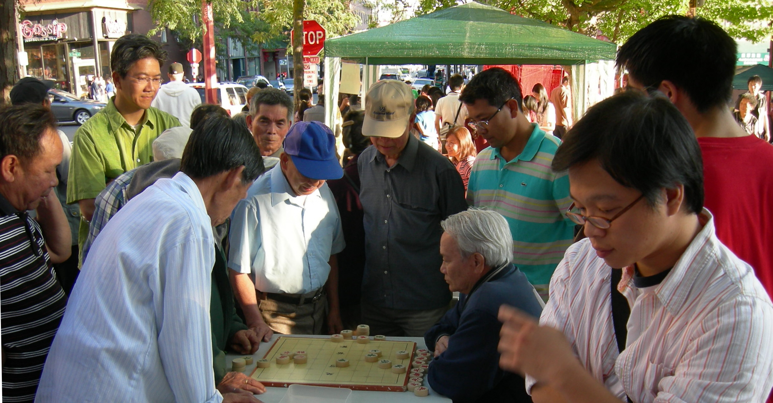 Playing Chinese chess (Xiangqi, 象棋) at Seattle's Chinatown-International District Night Market. Hing Hay Park, International District, Seattle, Washington.